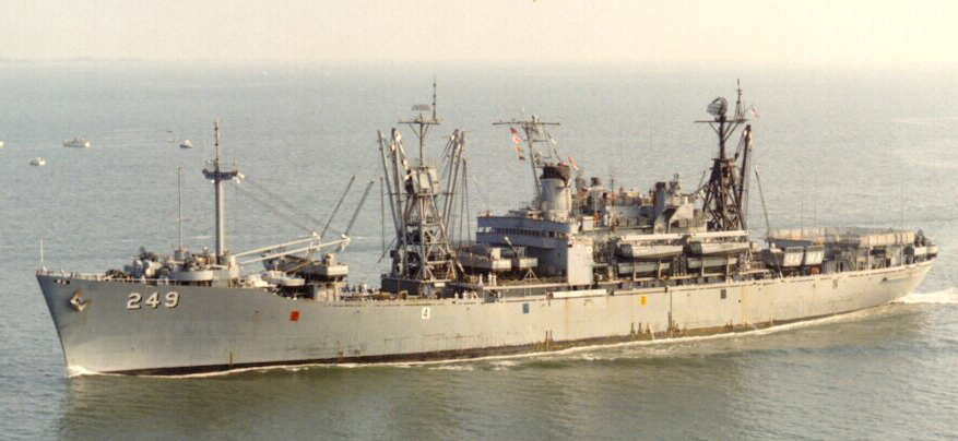 The U.S. Navy attack transport USS Francis Marion (APA-249) underway